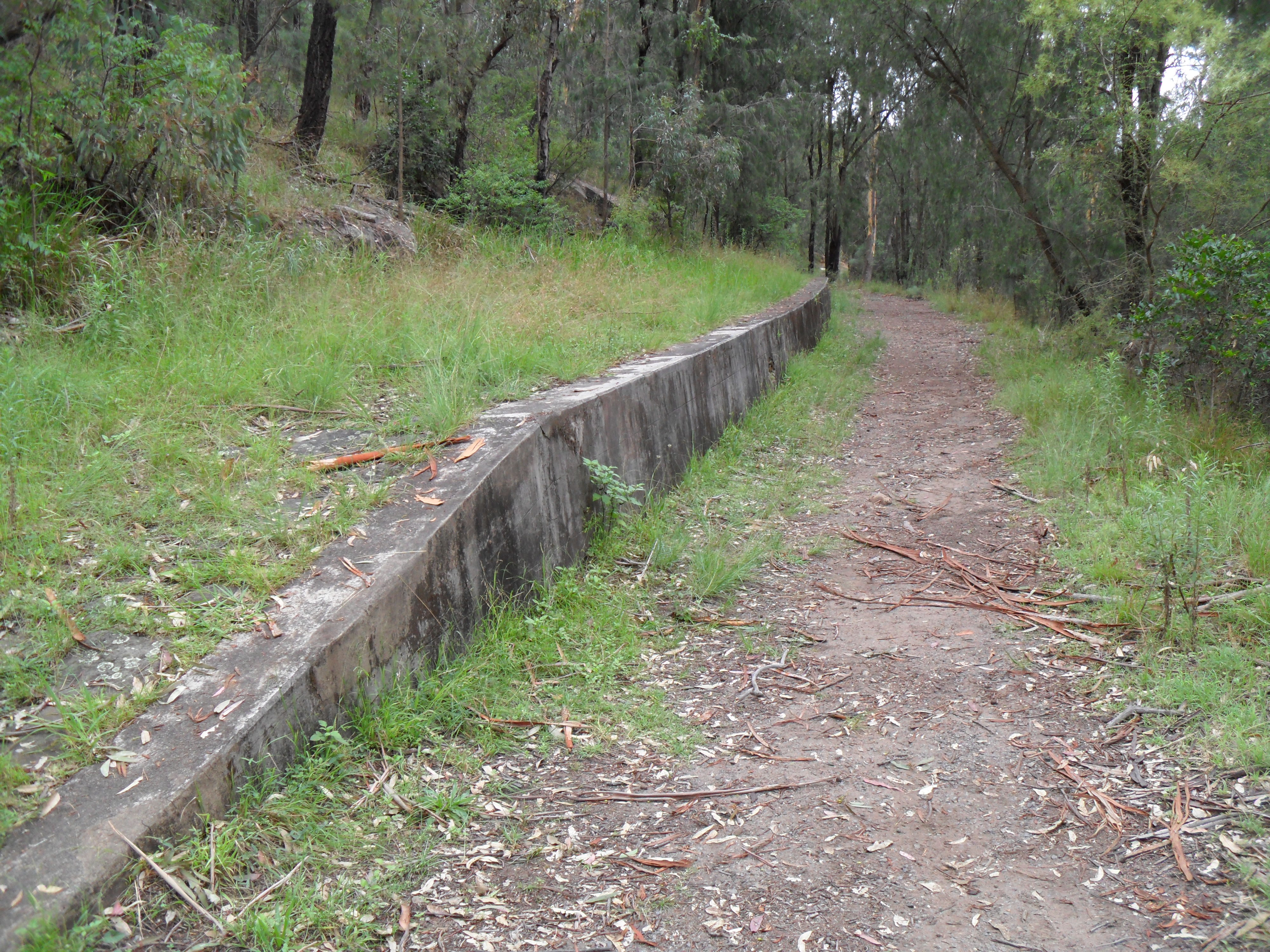 Lucasville Station (disused), seen on walking track to Knapsack Viaduct